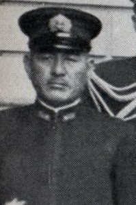 Teijirou Sugisaka is an Imperial Japanese Navy Vice Admiral